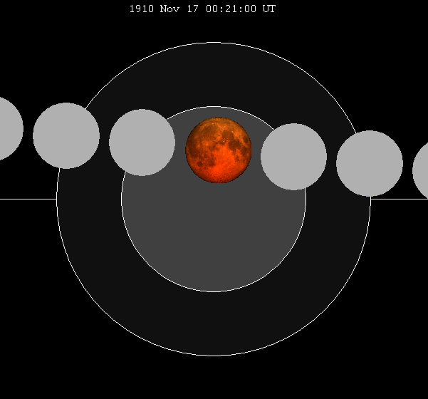 =lunar eclipse chart of moon's path through the earth's shadow. thumb